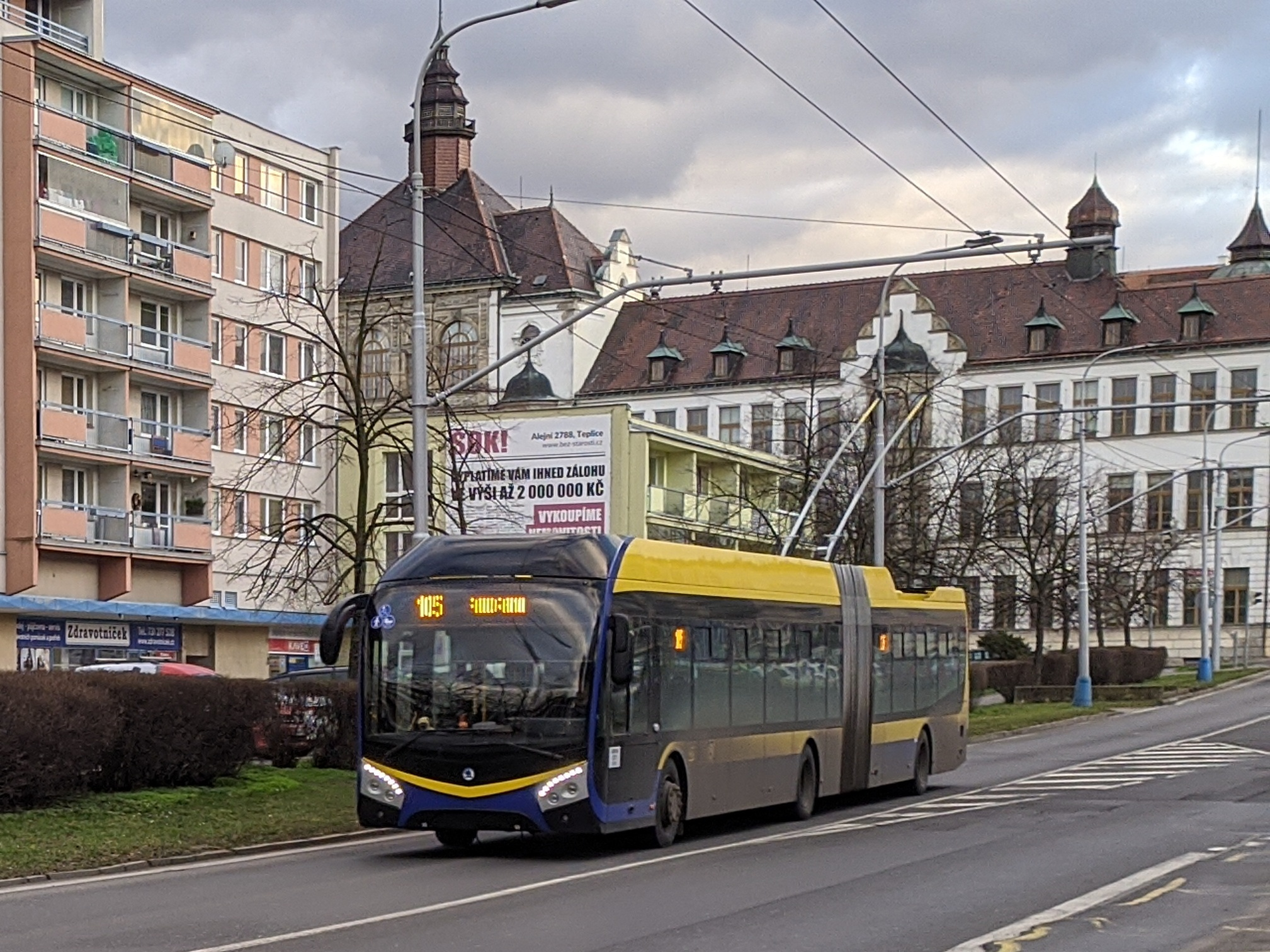 A picture of a tram for an article about this type of tram